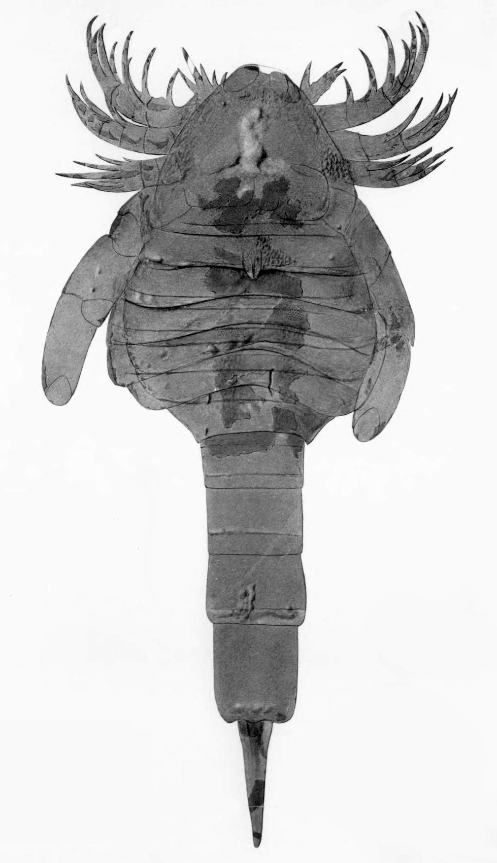 Carcinosoma (Eusarcus) newlini. The Eurypterida of New York. Volume 2. New York State Museum Memoir 14, plate 38